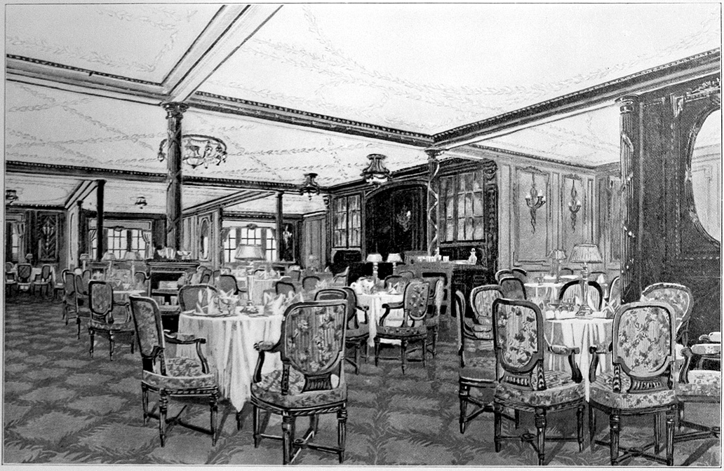 The À La Carte restaurant aboard the RMS Titanic